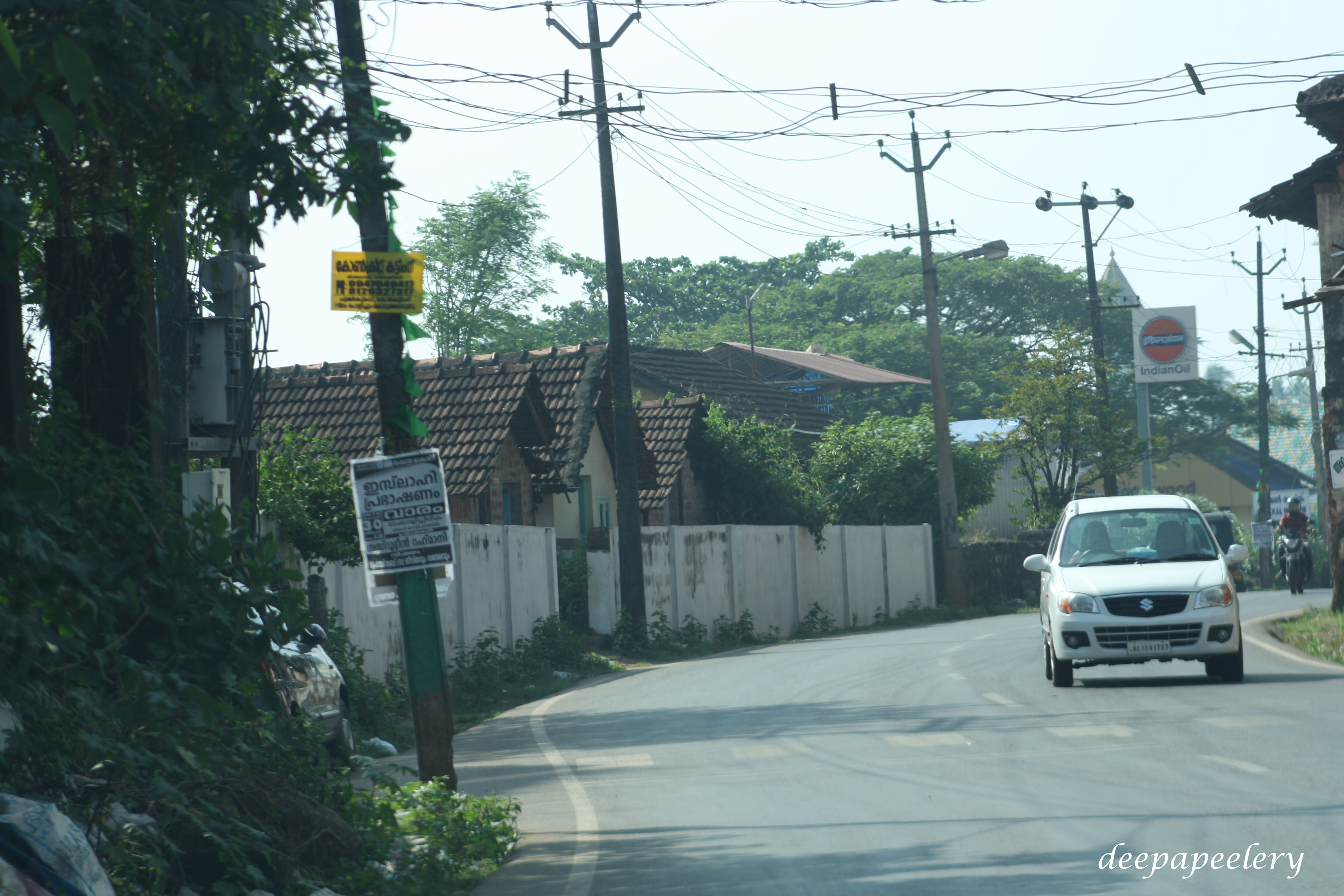 Road leading from Mohyuddin Mazjid.